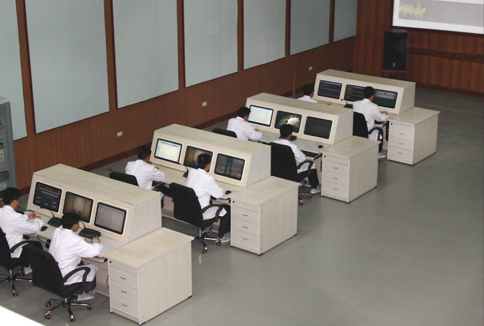 Technicians seated at their command stations during the "open house" for foreign journalists during the April 2012 North Korean missile launch.